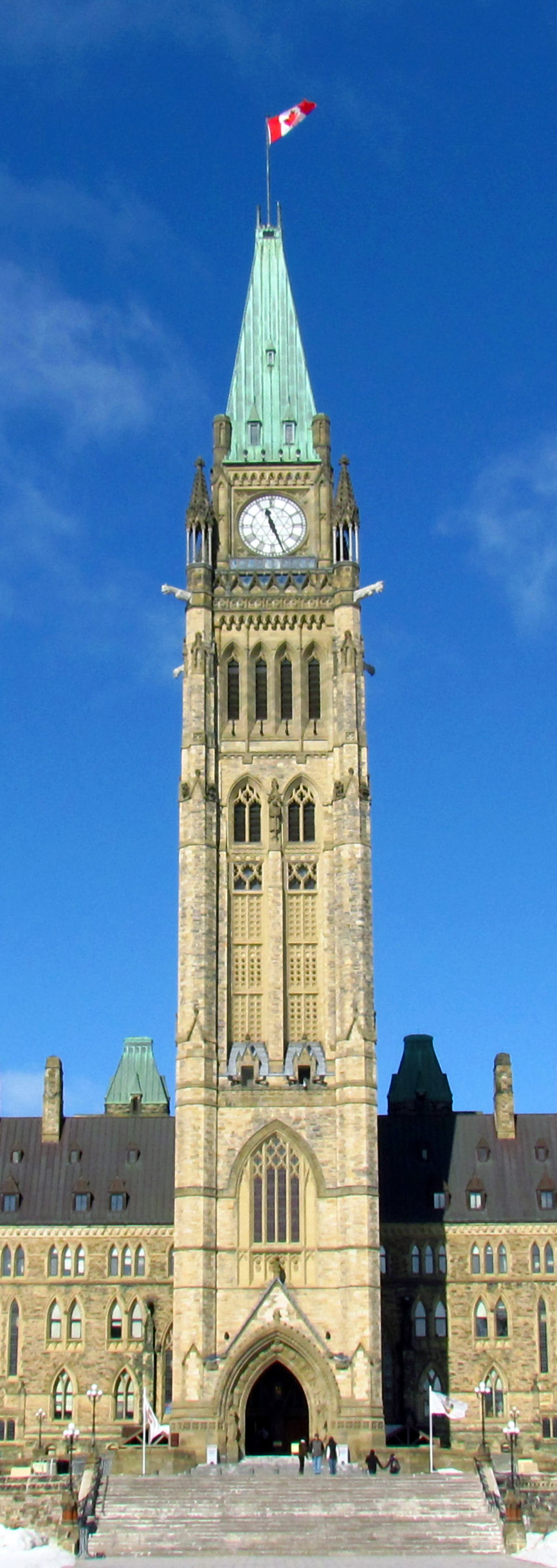 Peace Tower, Centre Block, Parliament Hill, Ottawa, Ontario, Canada